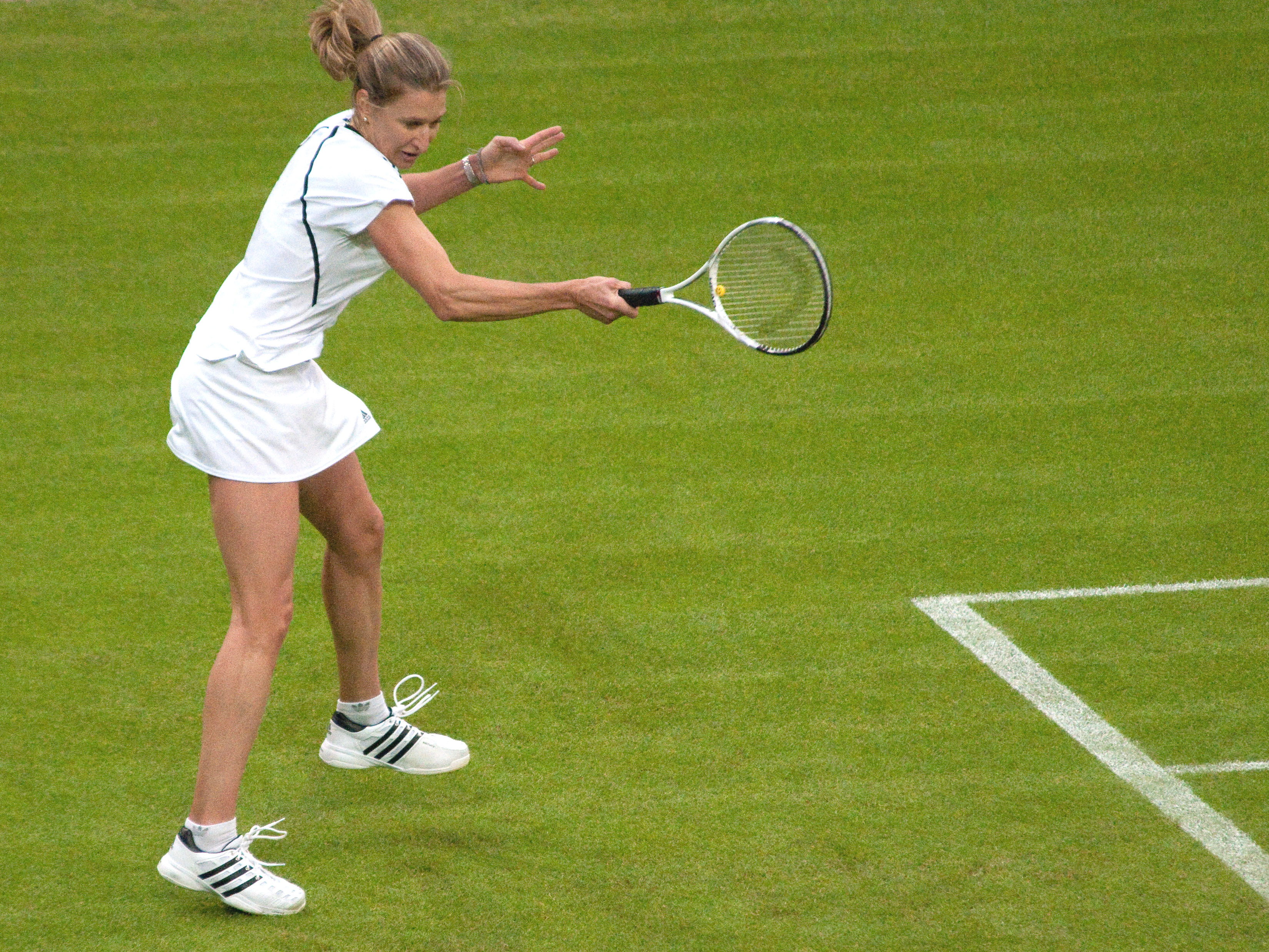 Former World No. 1 German female tennis player Steffi Graf during the special event “A Centre Court Celebration” (event was designed to test a new roof and air management system with live tennis in front of a capacity crowd of 15,000 – Andre Agassi and Steffi Graf played vs. Tim Henman and Kim Clijsters)